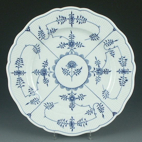 Plate, decor Immortelle